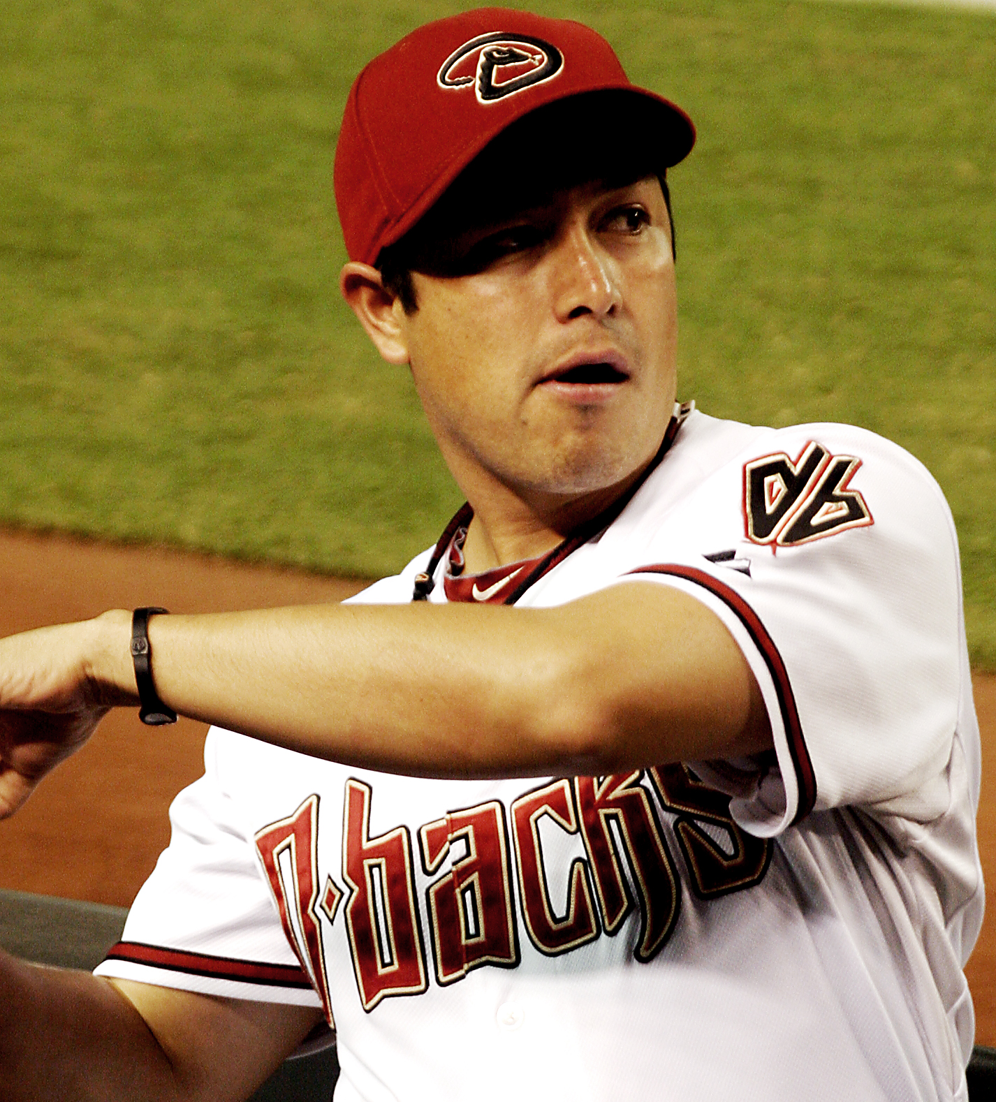 Description Rodrigo Lopez Date7 August 2010, 08:03 (UTC)SourceI (Mwinog2777 (talk)) created this work entirely by myself.AuthorMark Winograd 08:03, 7 August 2010 . . Mwinog2777 . . 1,426×1,578 (2.14 MB) Rodrigo Lopez